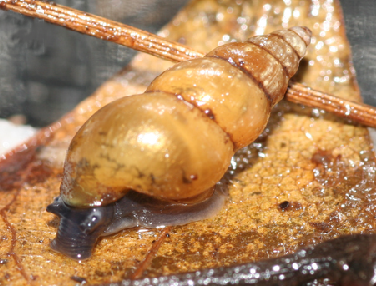 Photo of live Blanfordia sp.